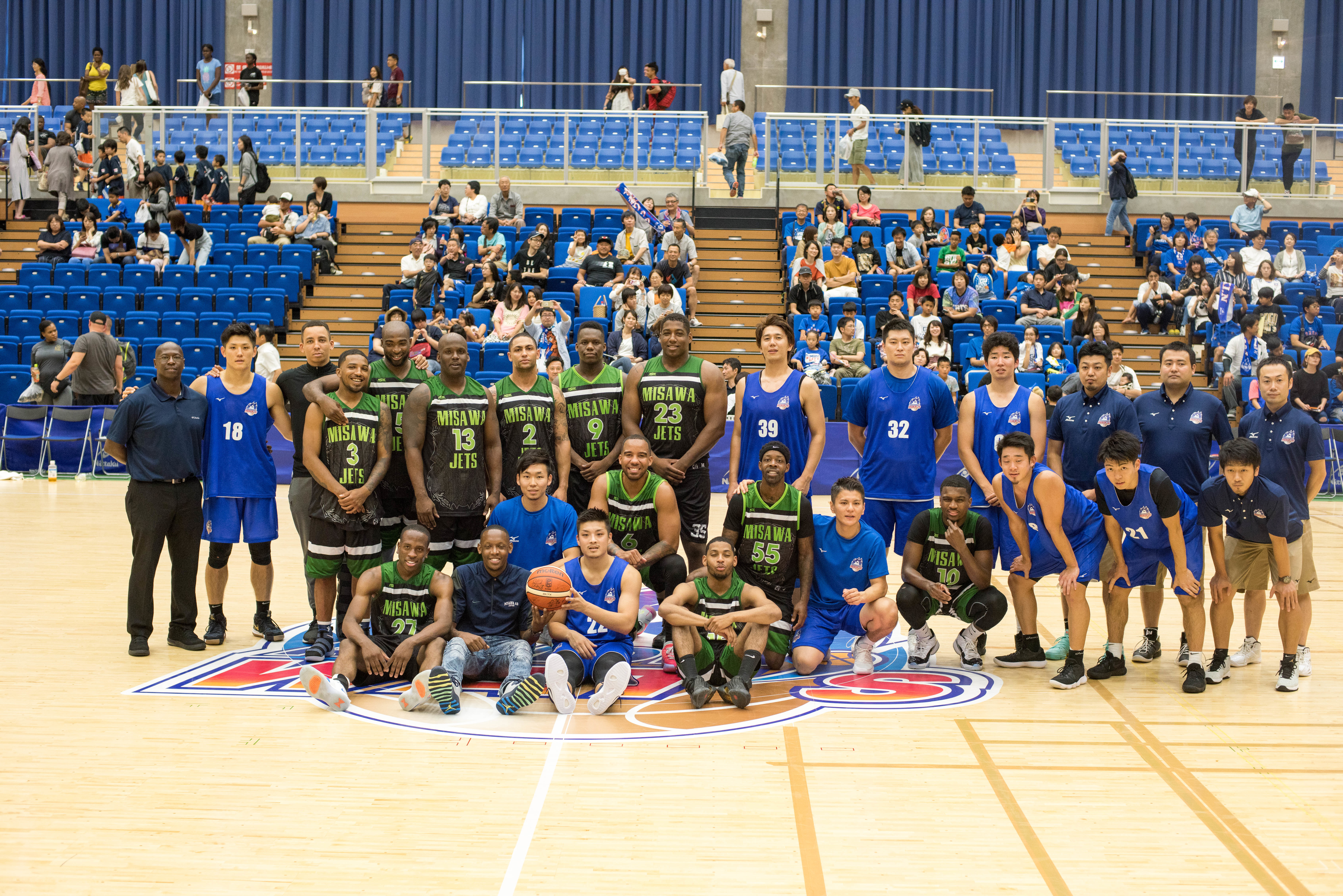 Players, coaches and staff with both the Misawa Jets, left, and Aomori Wat’s, right, pose for a photo following their exhibition game at the Misawa International Sports Center in Misawa City, Japan, Aug. 18, 2018. The game showcased American esprit de corps and sportsmanship while emphasizing Misawa City’s long-standing motto with the base, “Co-existence and co-prosperity.” The game’s final score resulted in a Wat’s win, 104-75. (U.S. Air Force photo by Tech. Sgt. Benjamin W. Stratton)